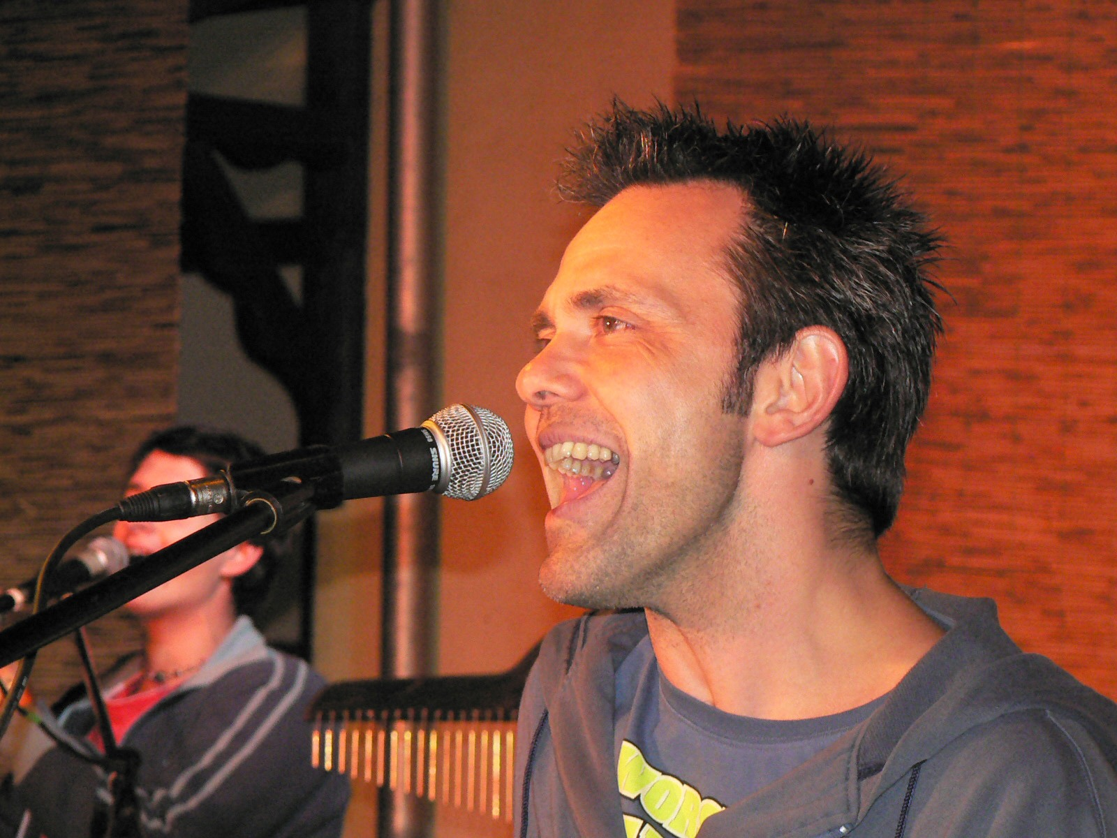 Hrutka Róbert 2007